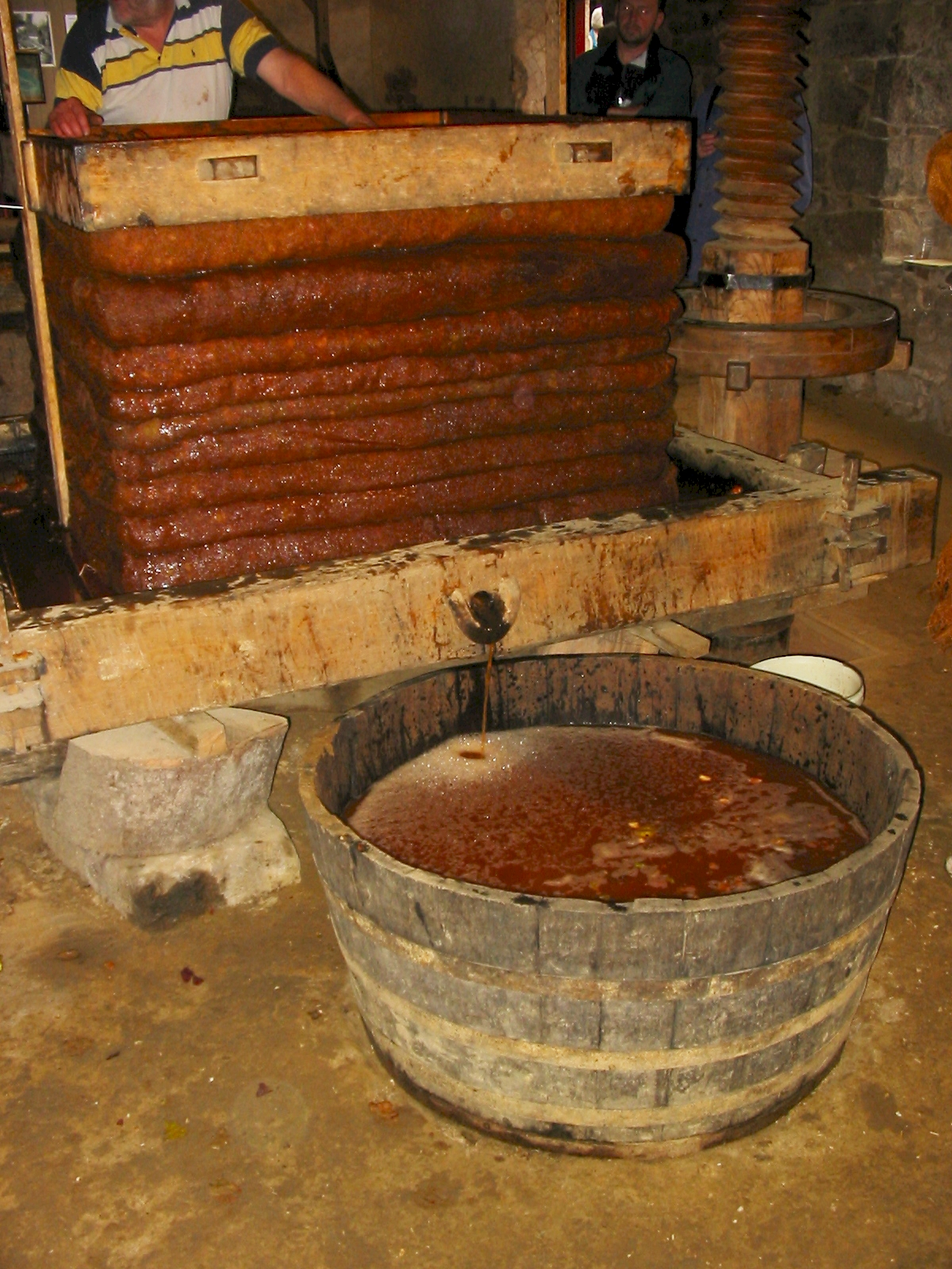 Making cider with a traditional cider press during a cider festival in Jersey.